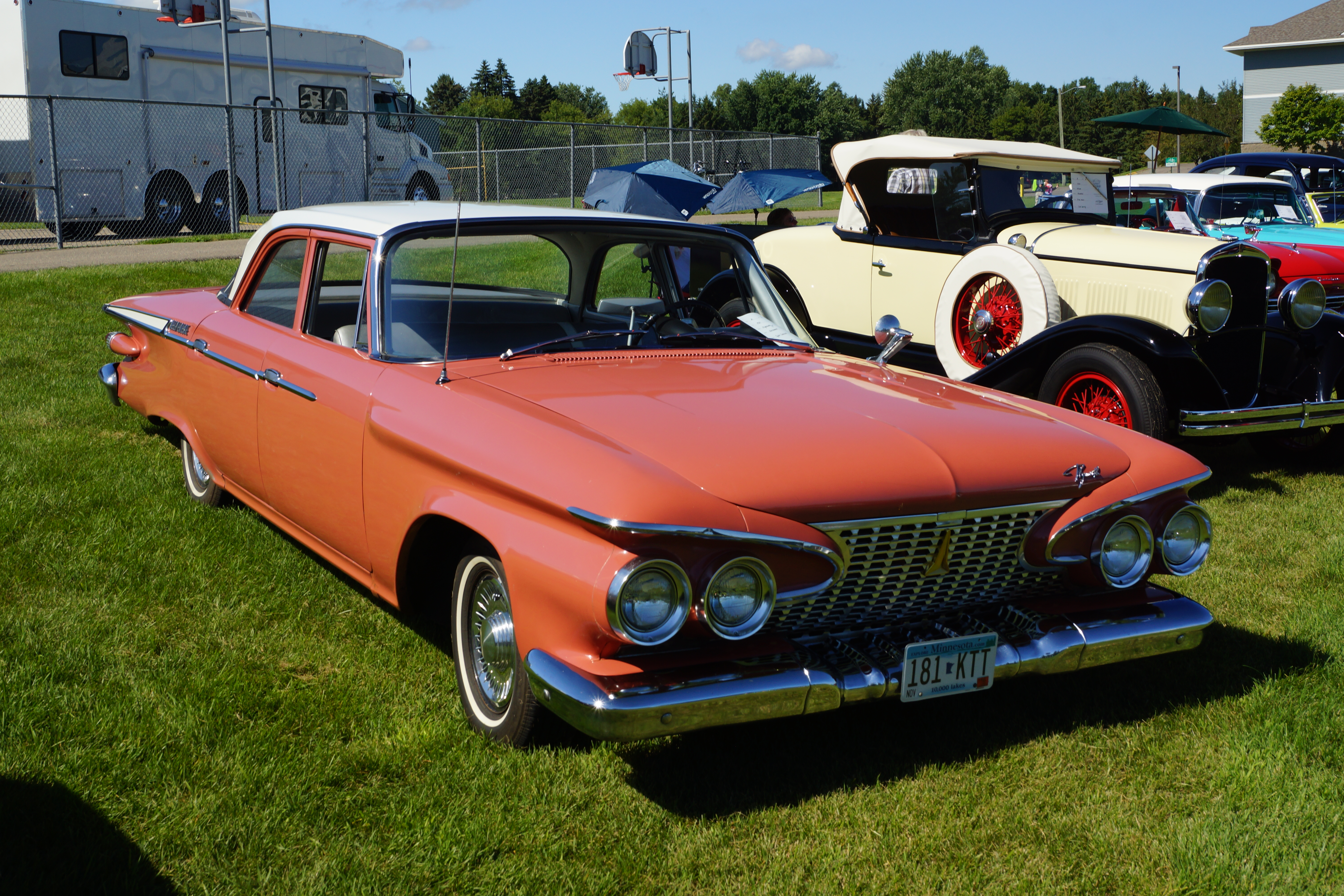 Cold Spring Street Machines 37th Annual Car by the Creek Car Show Cold Spring, Minnesota July 2016 Click here for more car pictures at my Flickr site.